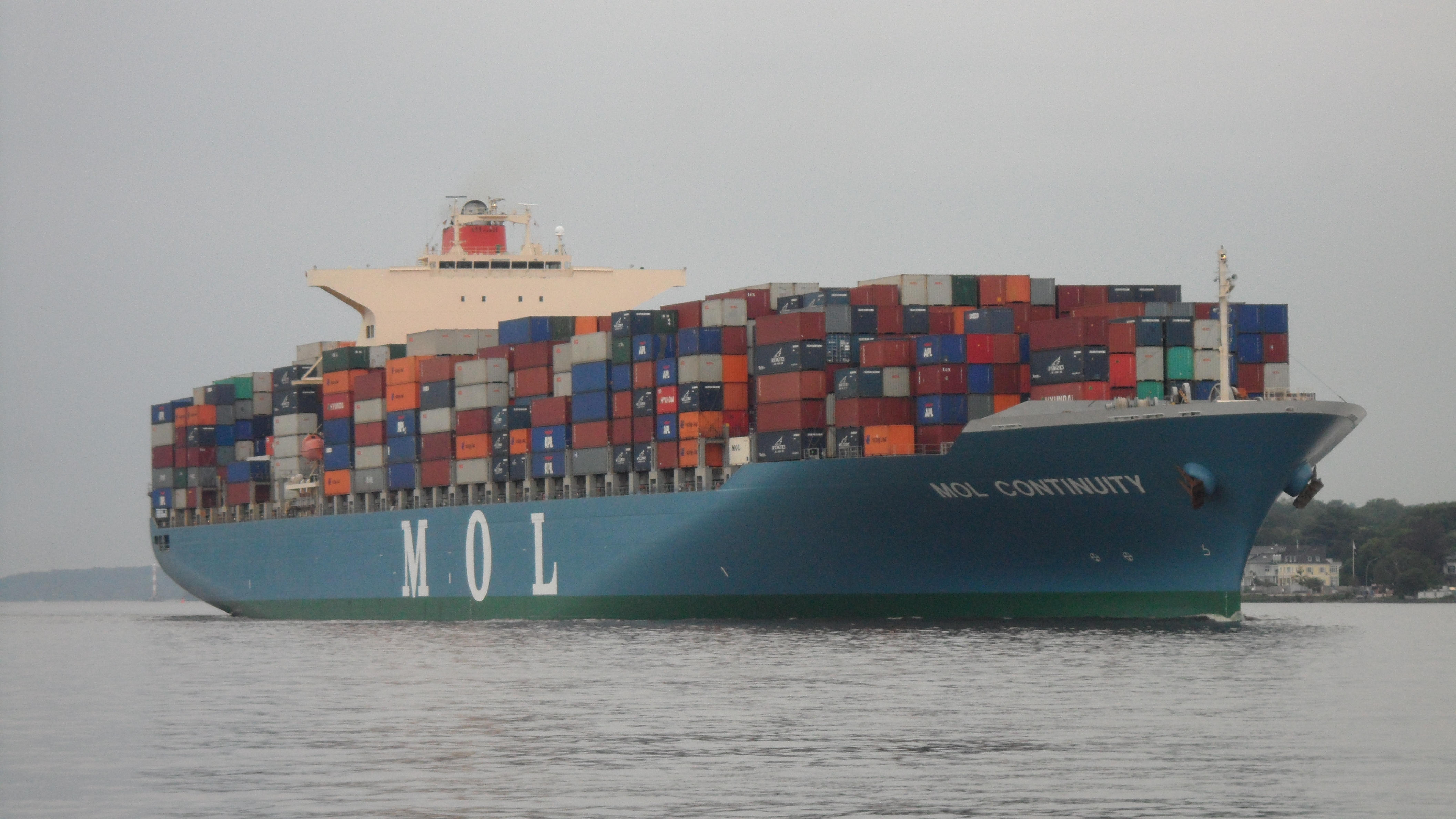 Container ship MOL Continuity on the Elbe with Destination Hamburg